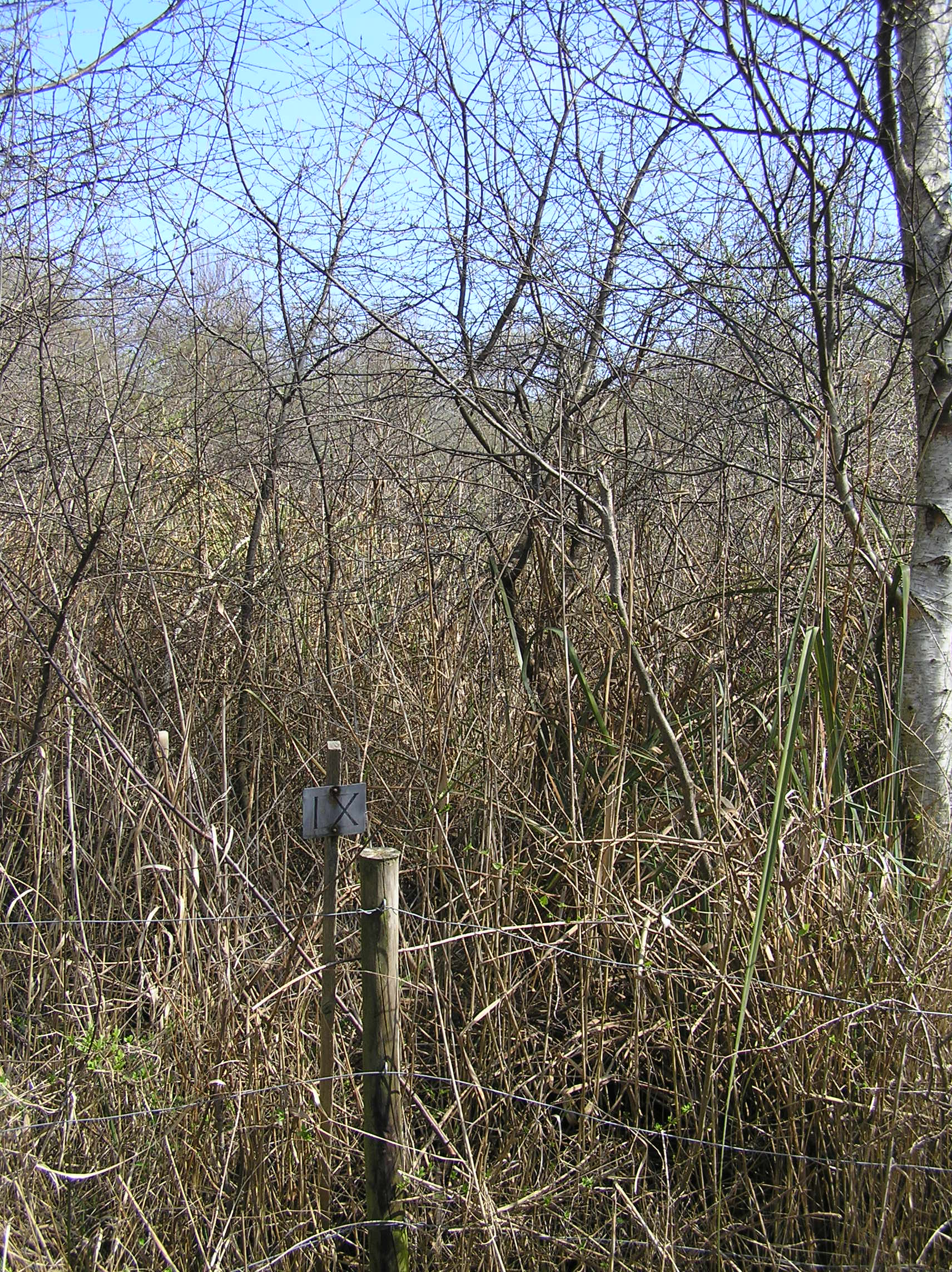 This photograph shows the Godwin plot which is never cut. It shows how without any cutting the fen turns into scrubby forest. I, NH Savage, took this photo and release under the GFDL license.